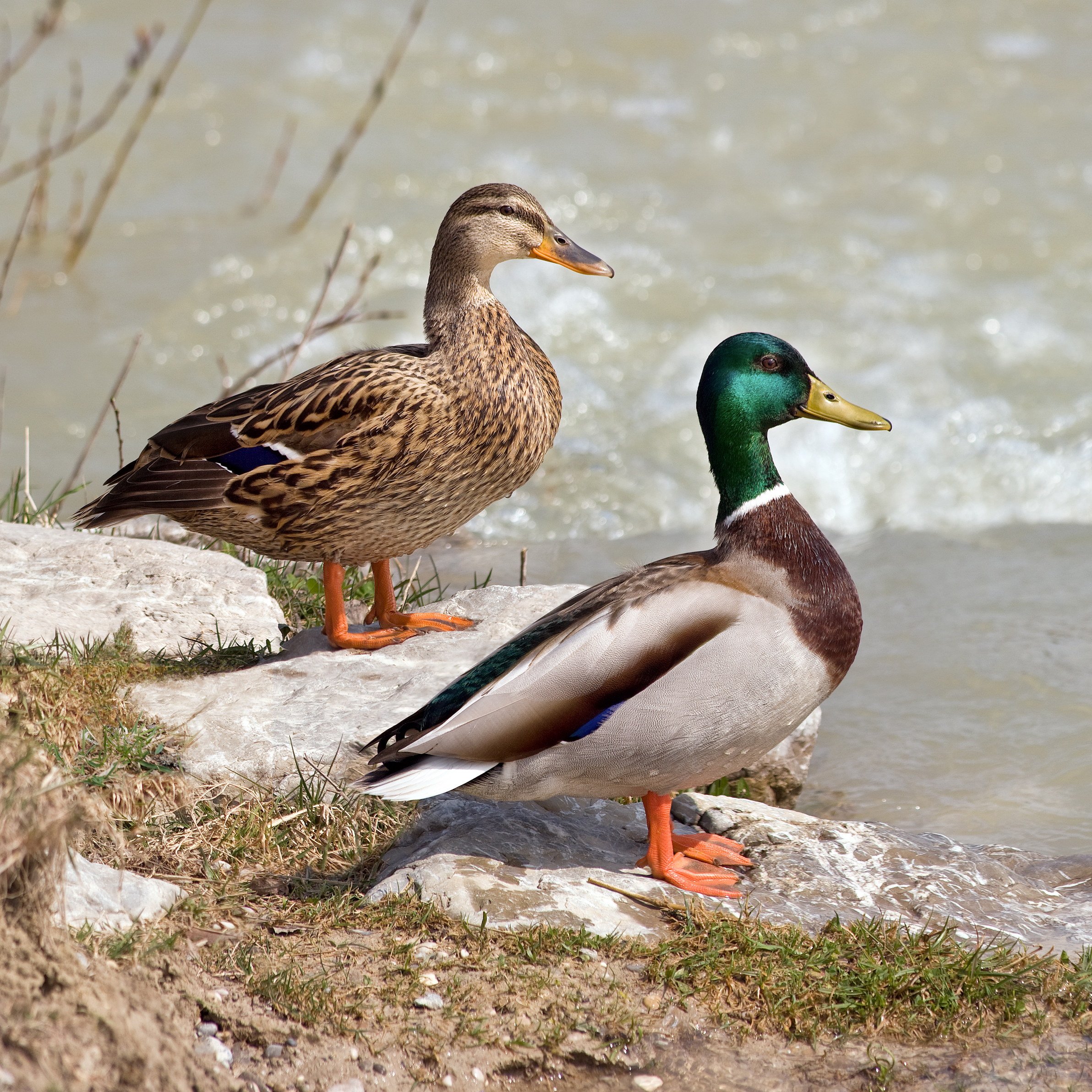 A Mallard pair at Mühlthal, Straßlach-Dingharting, Germany. The Mallard is the archetypal "wild duck" and probably the best-known of all ducks, is a dabbling duck which breeds throughout the temperate areas of Europe, Asia, and North America; it was also introduced into New Zealand and Australia.